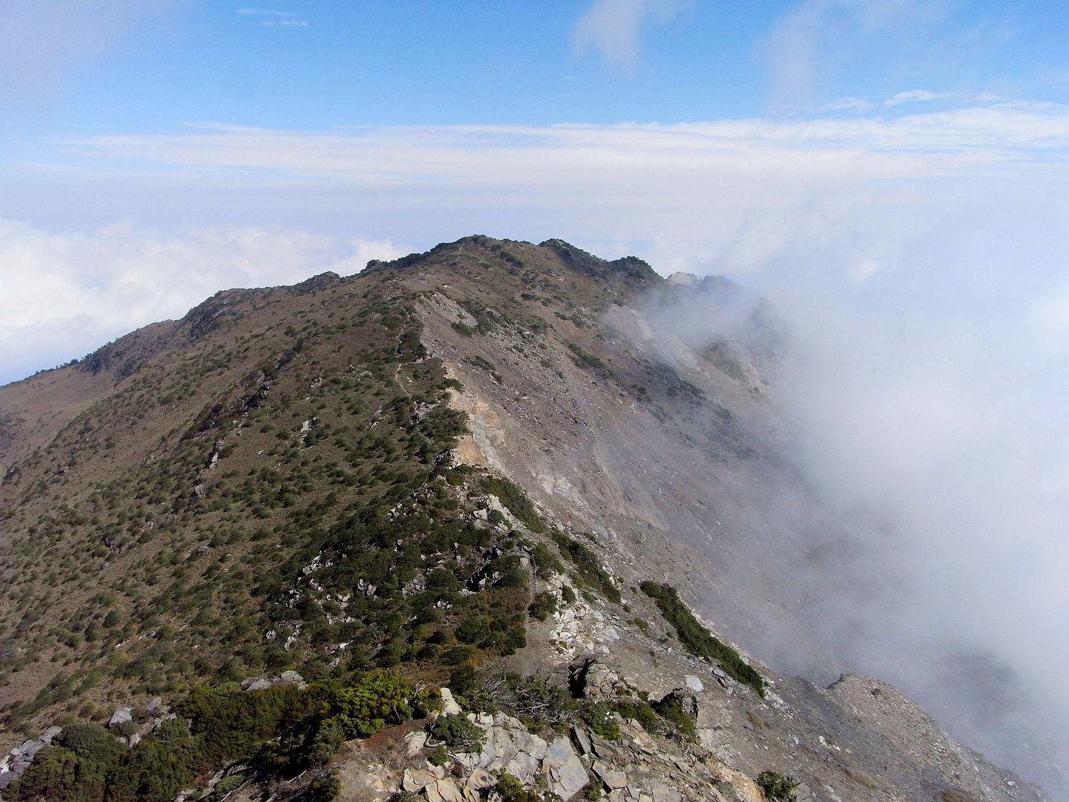 Northern Nan hu Mountain - 南湖北山